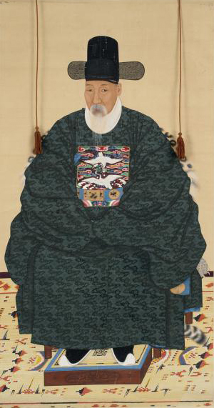 “Portrait of Chae Jegong in black danryeongpo” painted by Yi Myeong-gi in 1792, held by Sangeuisa in South Korea